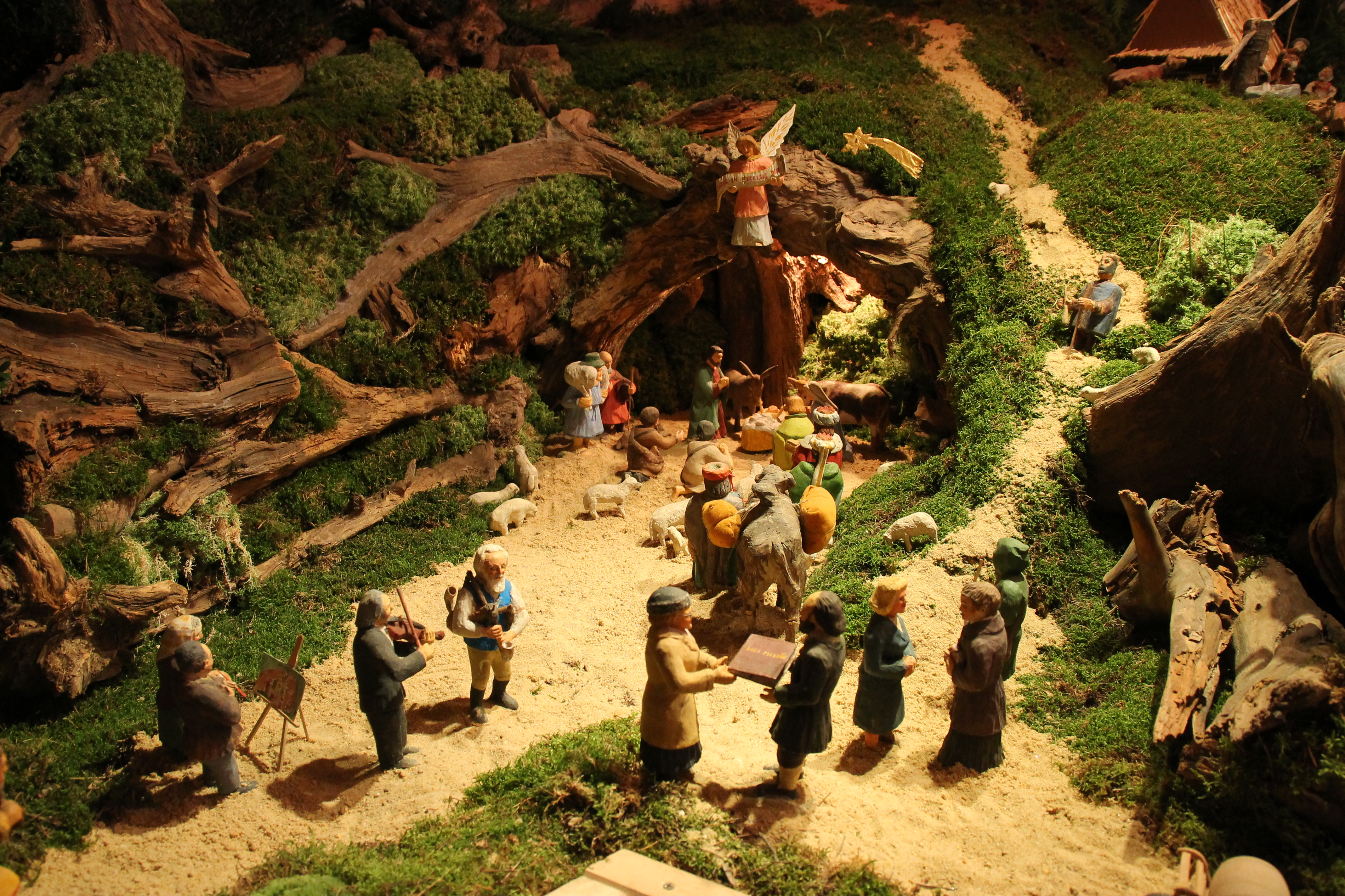 Rouha's Betlehem